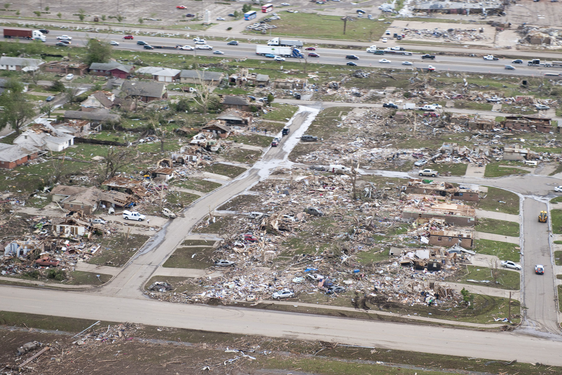 A photograph giving an overhead view of tornado damage in Moore, Oklahoma on May 21, 2013.